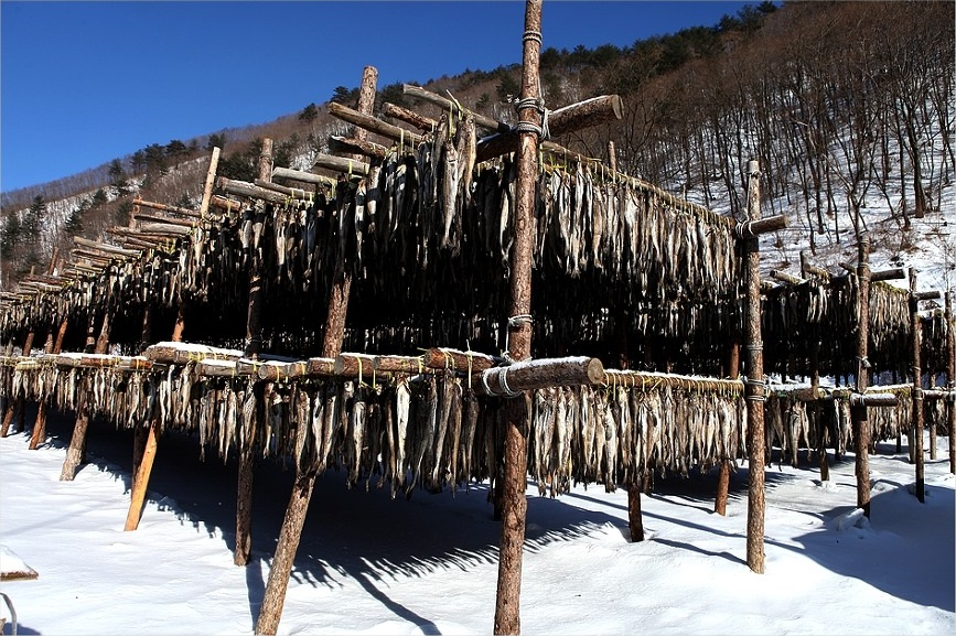 hwangtae (Gadus chalcogrammus)